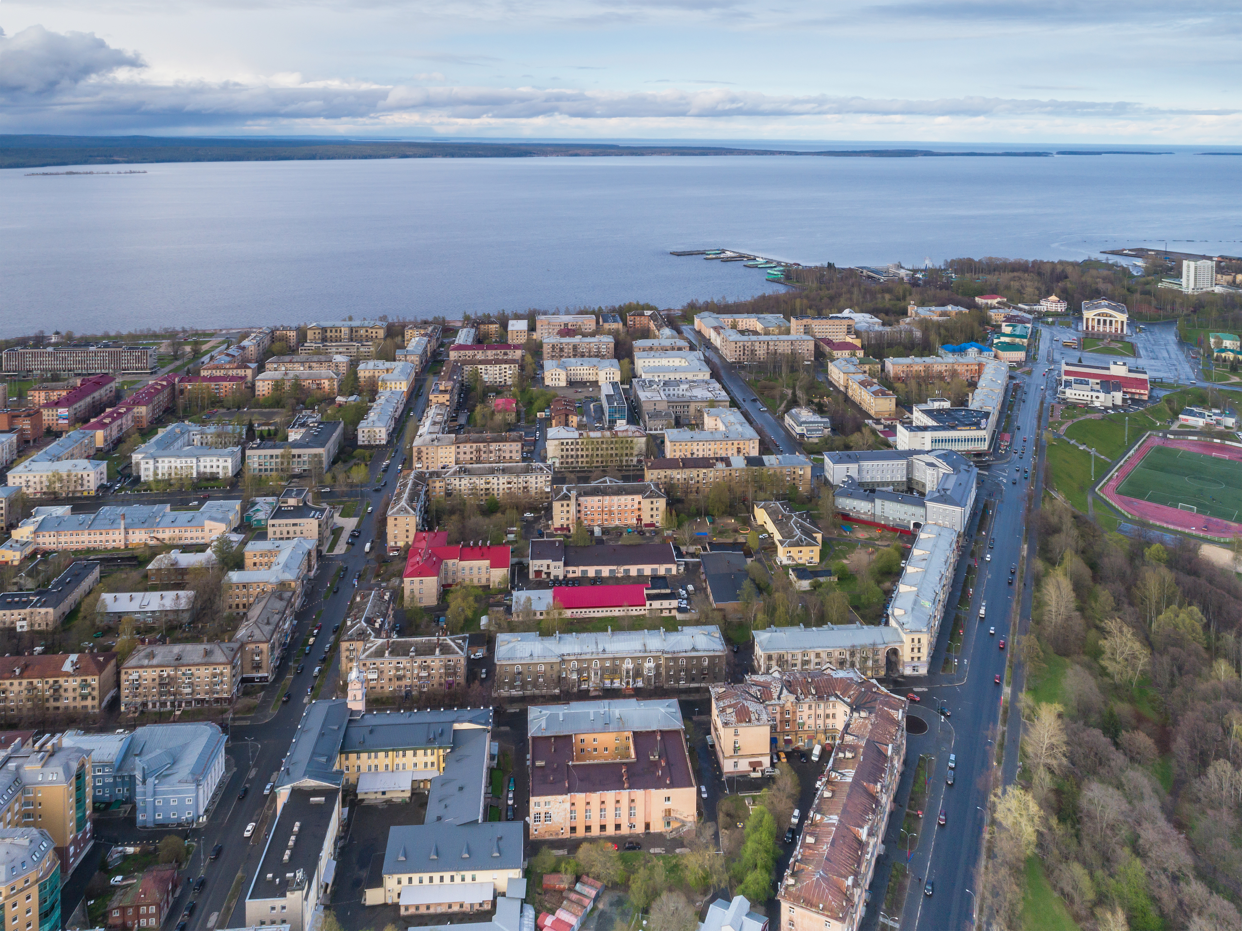 Aerial photo of Petrozavodsk, Republic of Karelia (Russia).